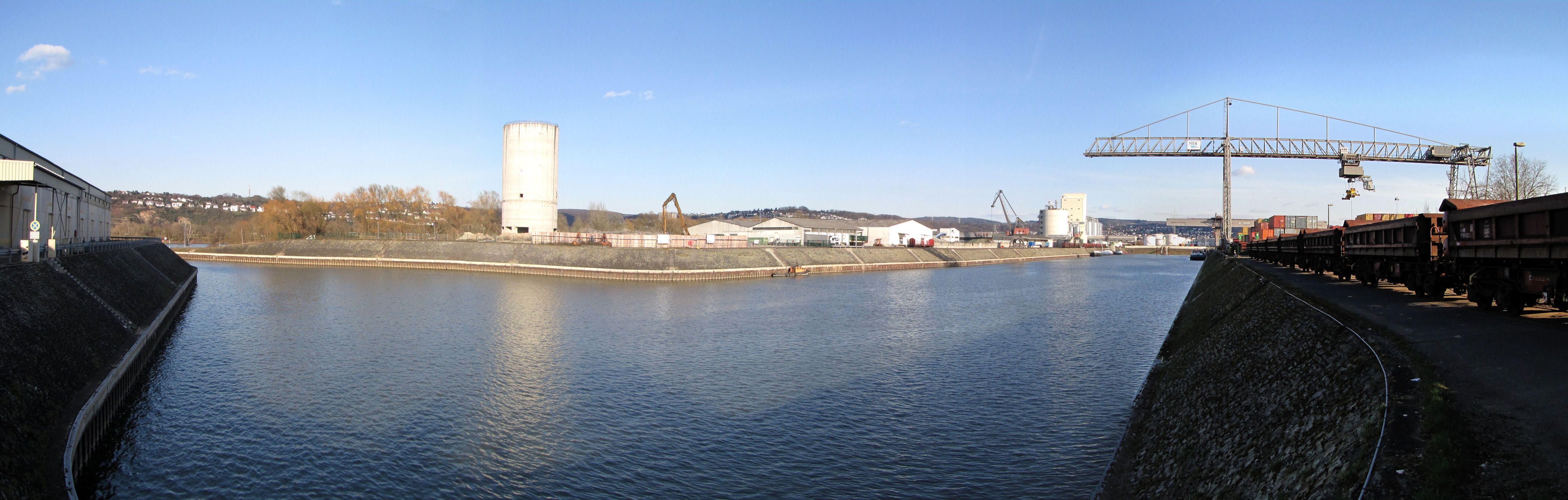 Rhine-Habour of Koblenz